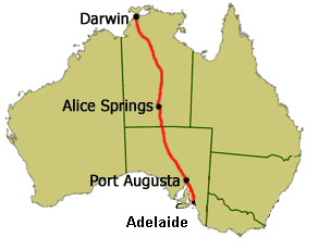 Route of the World Solar Challenge